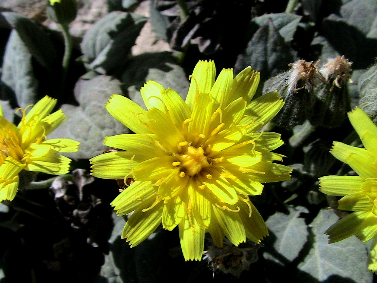 Crepis pygmeae. In la Bòfia, la Coma i la Pedra (Solsonès - Catalunya). To 1.960 m. altitude